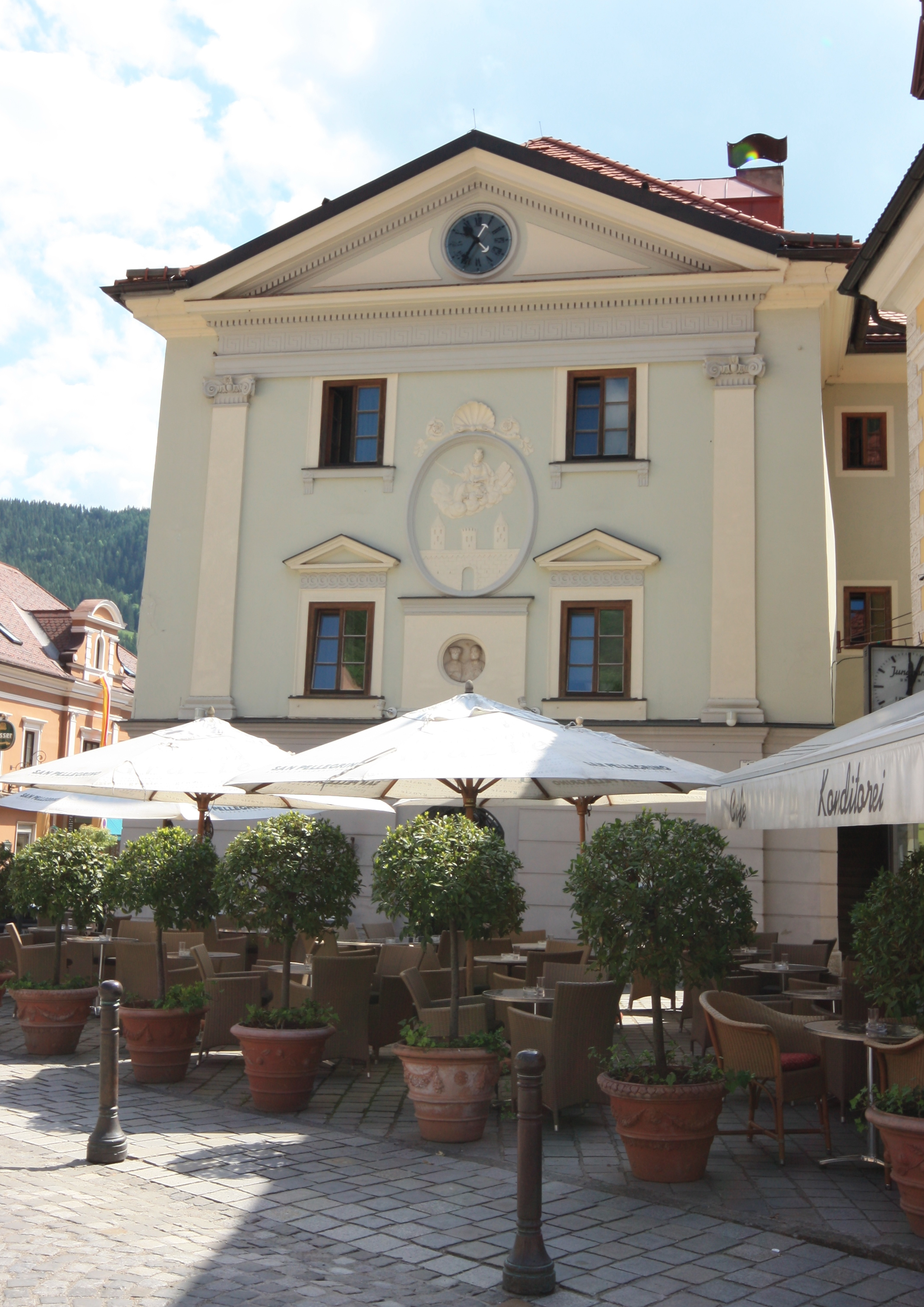 Old town-hall in Friesach, Carinthia